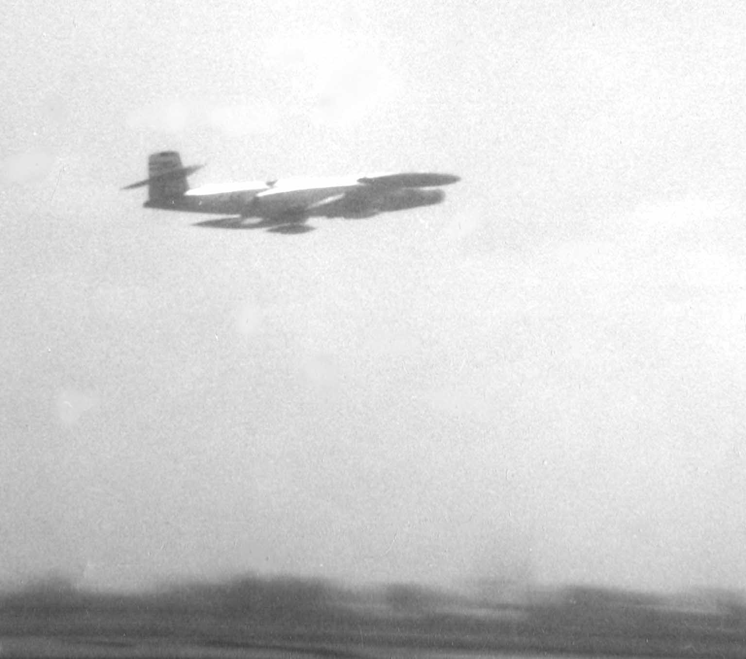 An Avro Canada CF-100 "Canuck" interceptor scrambles on a training mission.